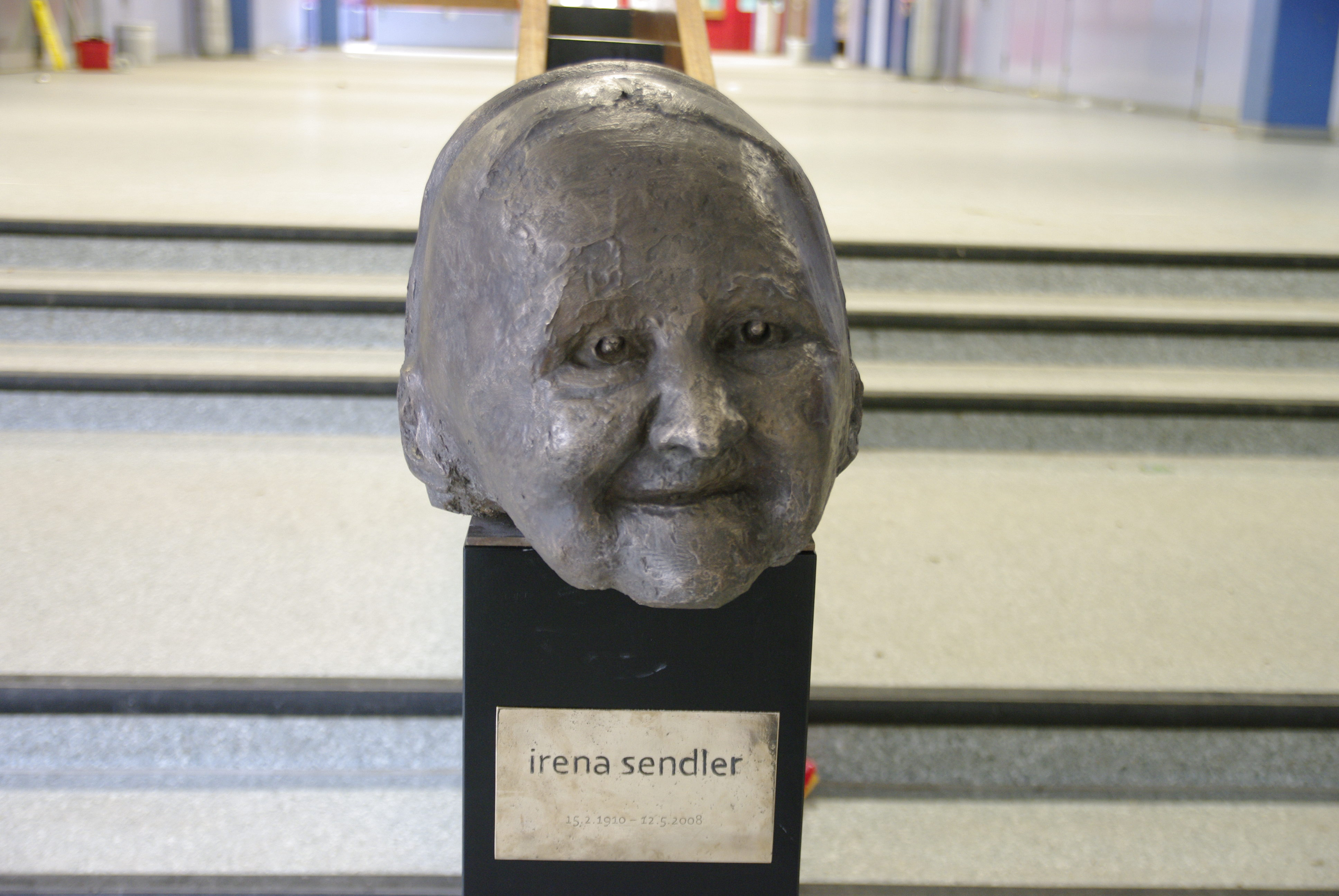 Bronze cast of polish activist Irena Sendler, made by artist Claudia Guderian